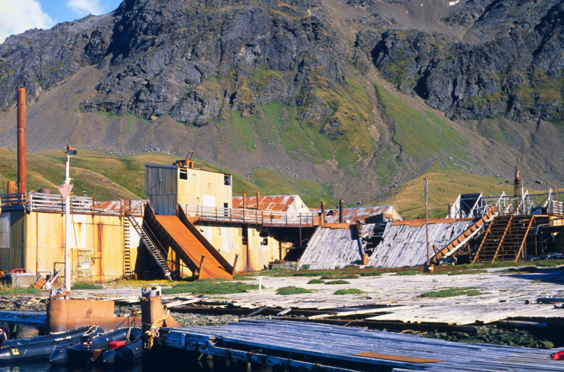 Whaling station in Grytviken